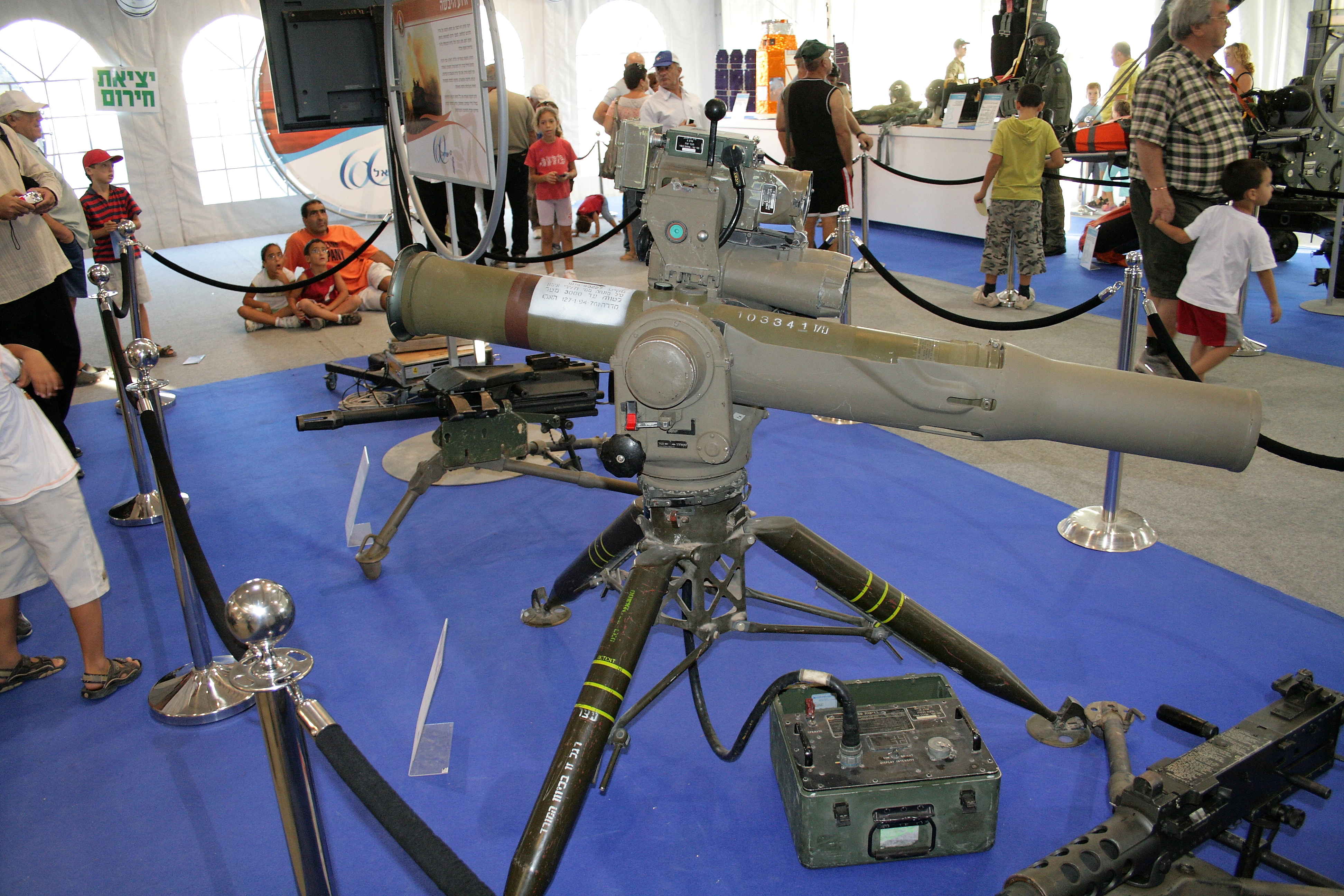 Tripod-mounted BGM-71 TOW launcher. Israel.